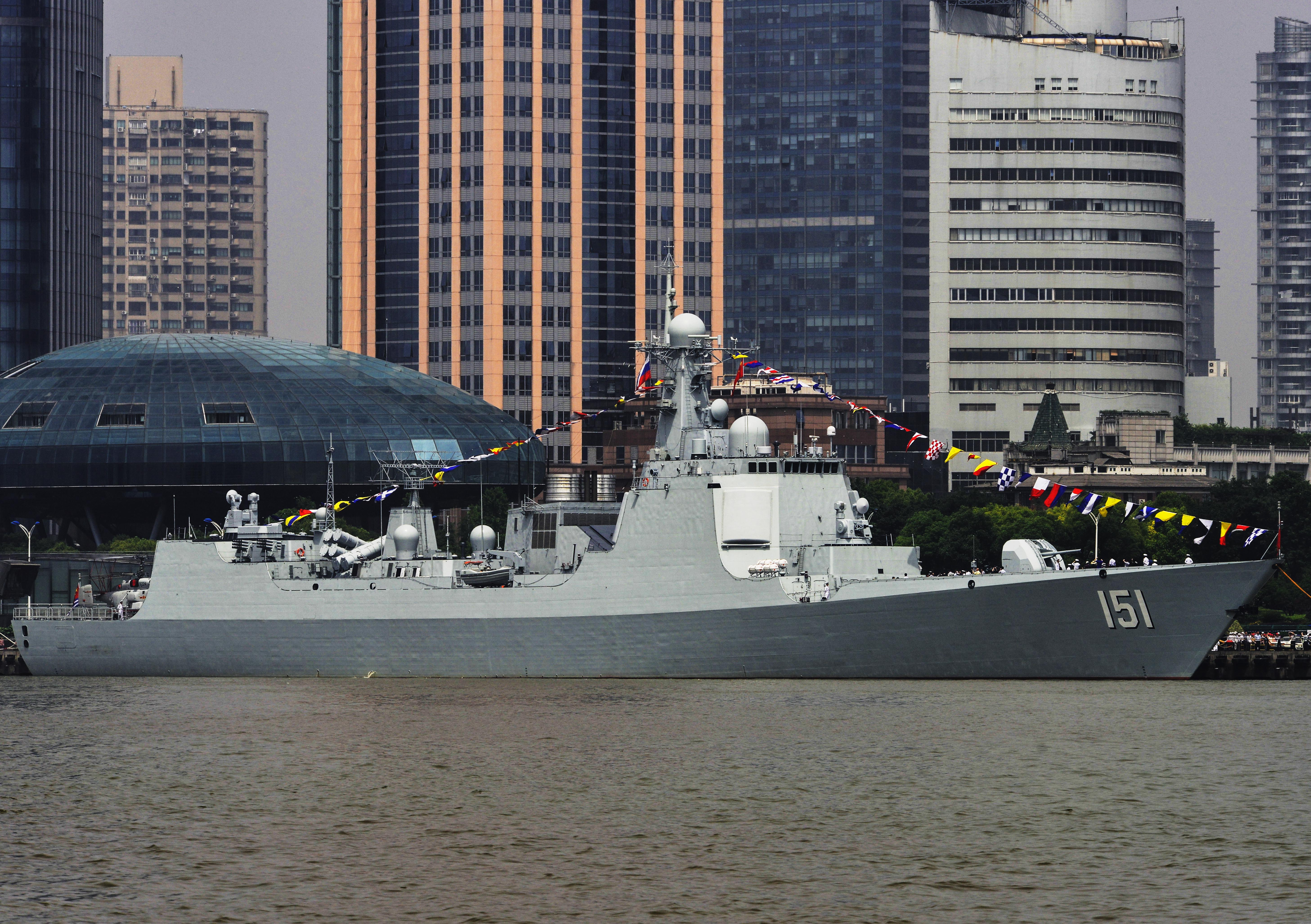 Chinese missile destroyer Zhengzhou after the China-Russia "Maritime Cooperation 2014" joint military exercise.